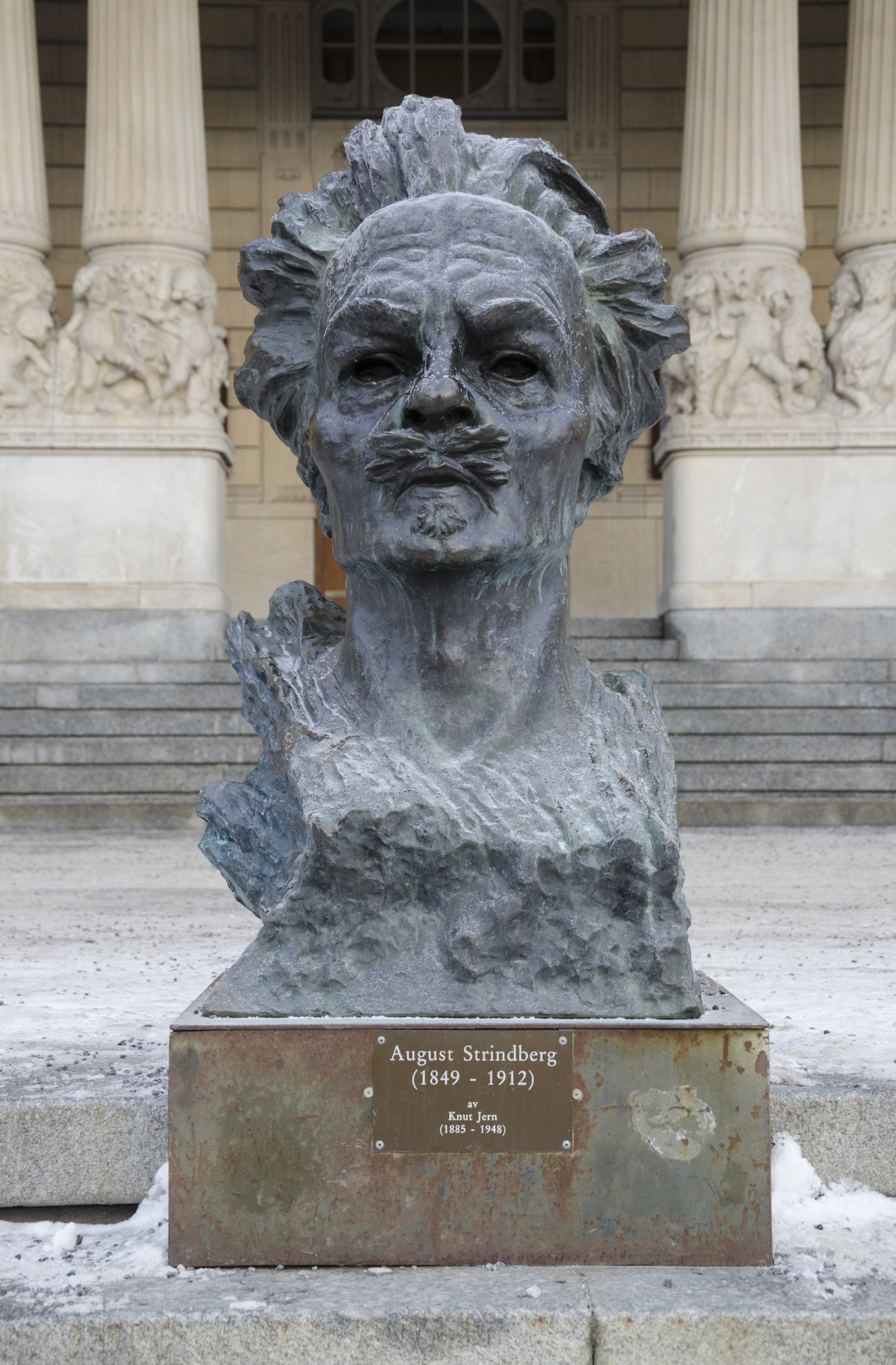 Bust of Swedish playwright August Strindberg (1849-1912), made by sculptor Knut Jern (1885-1948), placed in front of the Royal Dramatic Theatre in Stockholm.